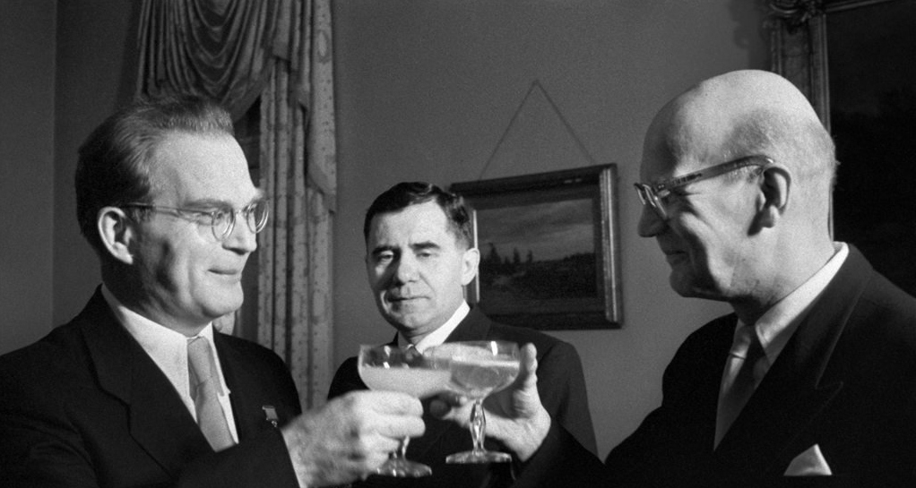 Photograph of the Soviet vice prime minister Mikhail Pervukhin, foreign minister Andrei Gromyko, and the Finnish prime minister Urho Kekkonen, presumably after signing a treaty at the Soviet embassy in Helsinki, on 26 January 1956, concerning Porkkala.